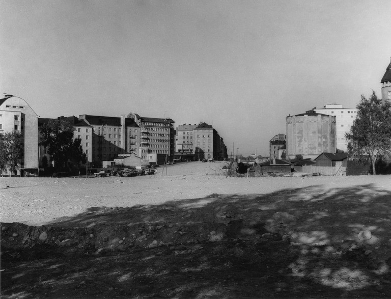 Rautatiekatu in Helsinki as seen from West in the 1950's